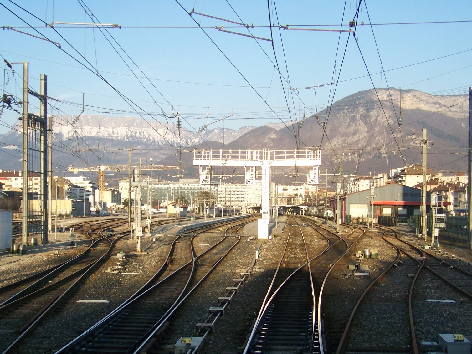 Entrance at Annecy train station, in Haute-Savoie, France, when arriving from Aix-les-Bains and Chambéry.